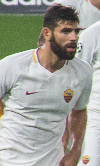 Chelsea VS. Roma 18 October 2017